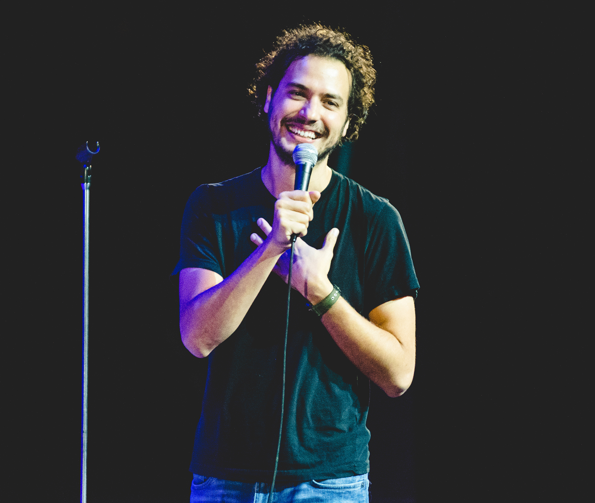 A 2015 photo of Costa Rican filmmaker, actor and comedian Hernan Jimenez.